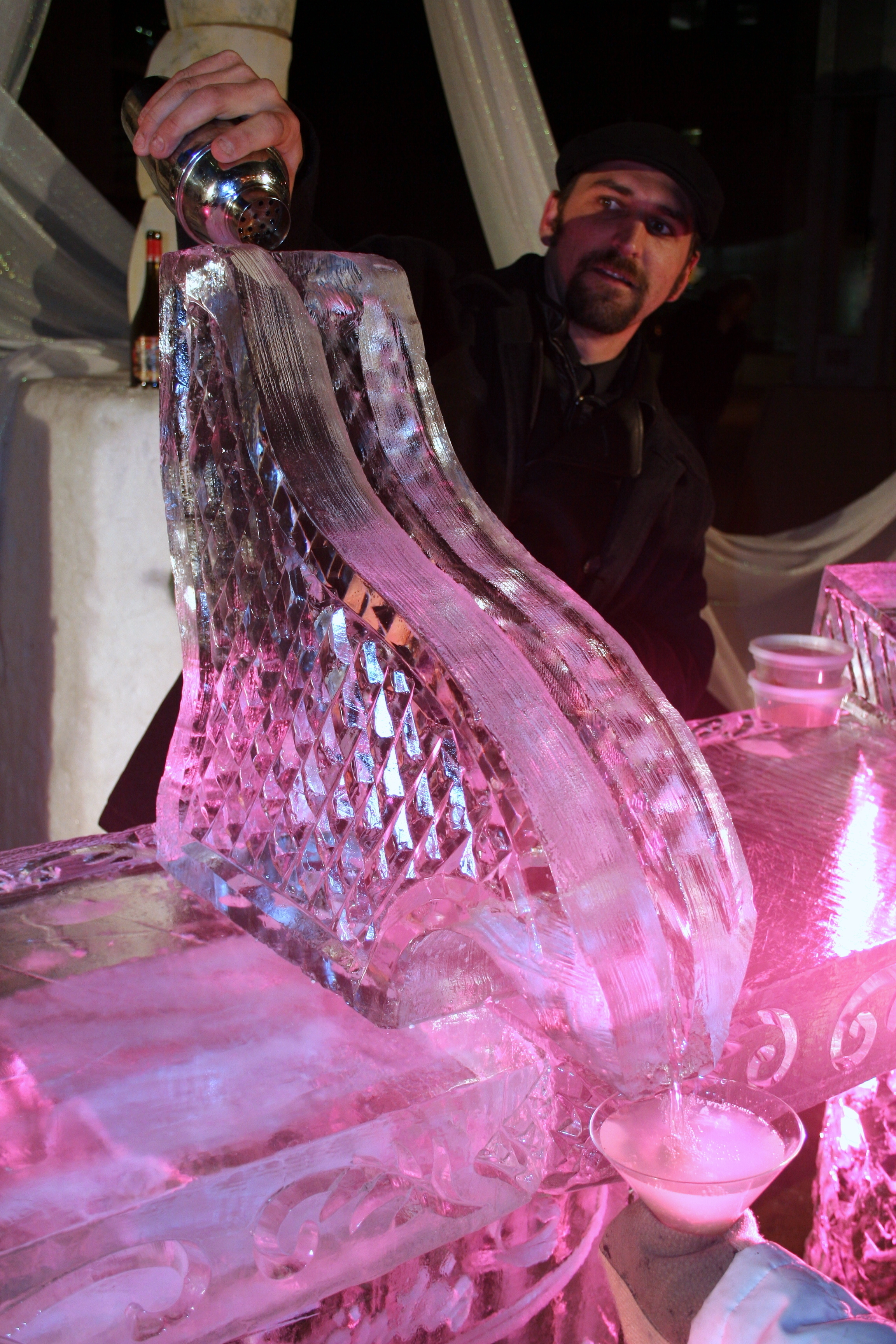 Bartender pouring a drink through an ice sculpture on an outdoor bar counter made of ice at a winter festival on the Peace Plaza in Rochester, Minnesota.